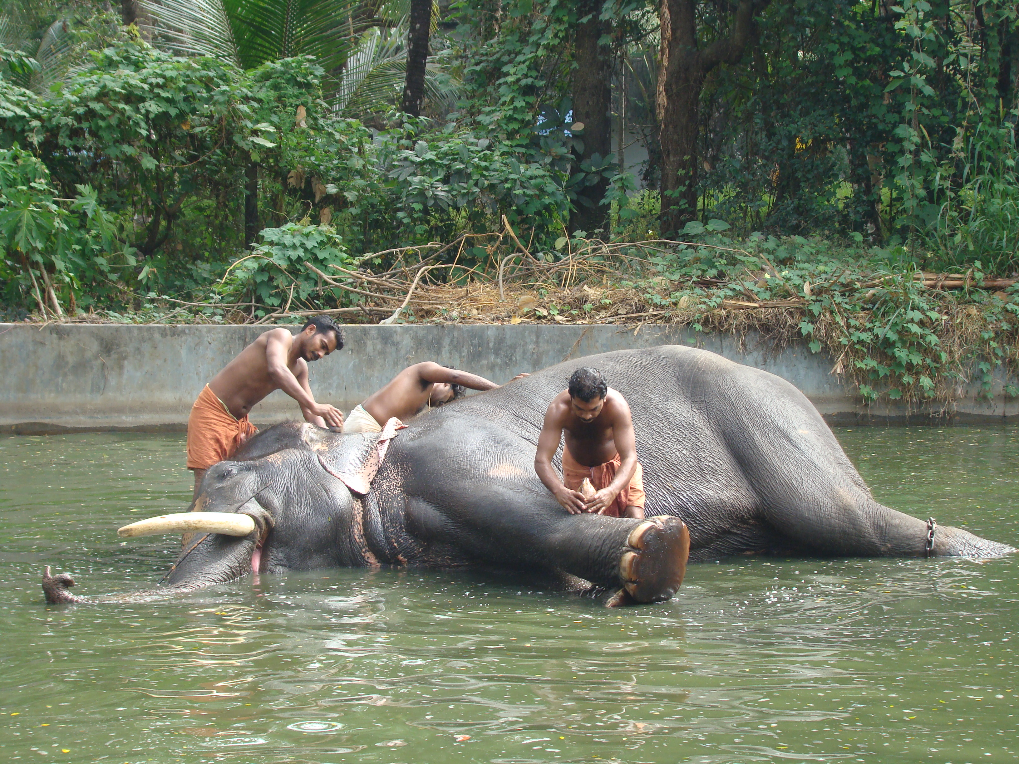 Elephant and handlers at Guruvayur elephant sanctuary